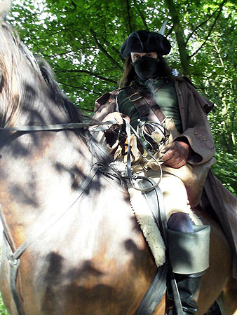 Tony Rotherham on the horse Baron.